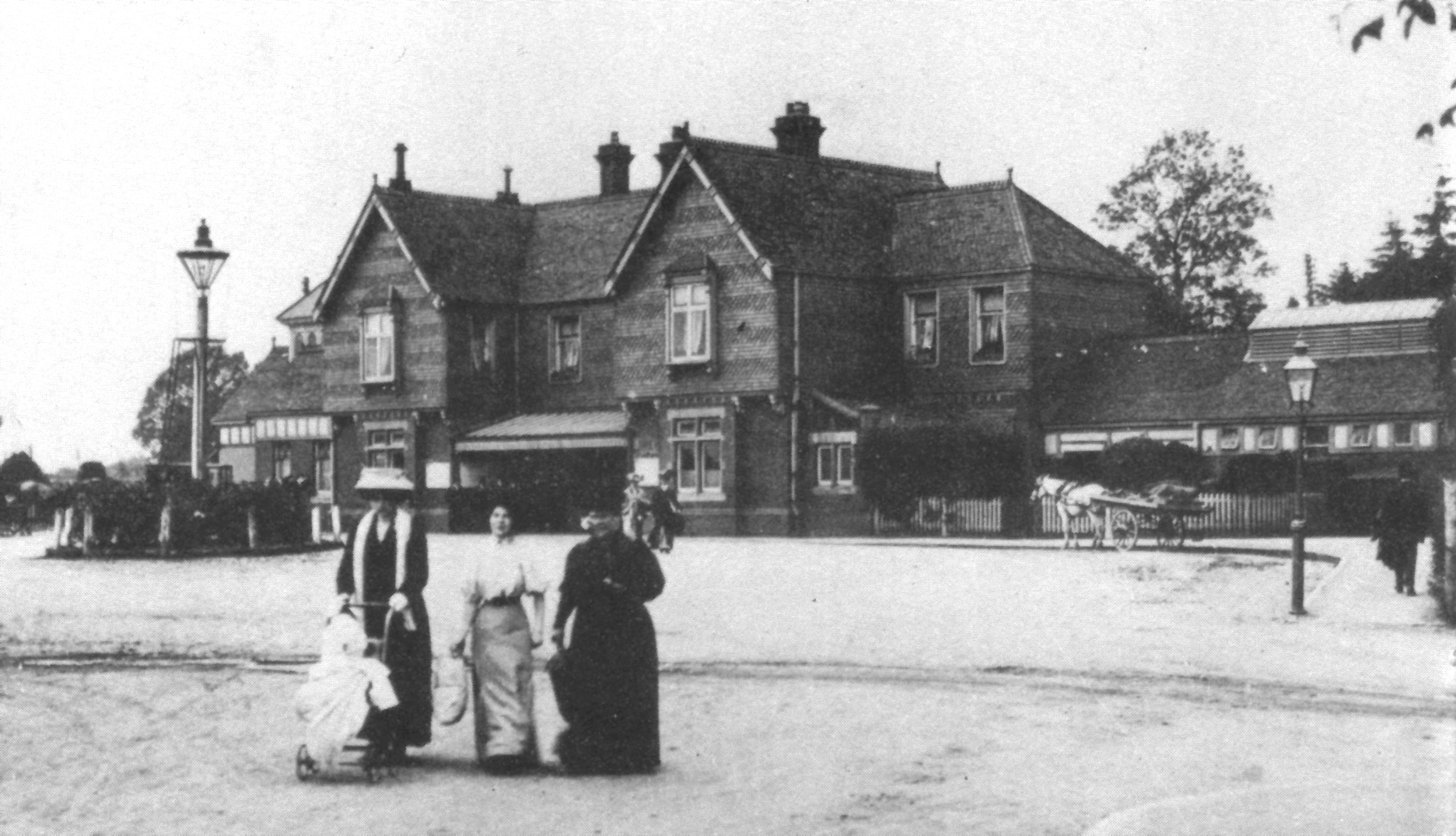 Third East Grinstead railway station, West Sussex